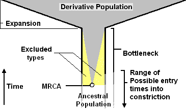 Illustration shows a retrospective from the extant population backward in time though a population bottleneck. During the period of highest exclusion, alleles (and their derivatives) that entered the bottle neck with the fixed allele (and its derivatives) are excluded. As a result estimating the length of the bottleneck or population size in the bottleneck in excess of the TMRCA is restricted to the age of the TMRCA.